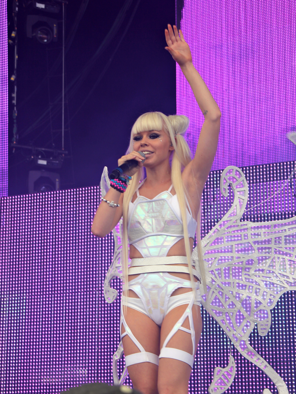 Kerli performing live during the Identity Festival on August 11th, 2012, in Houston, Texas.